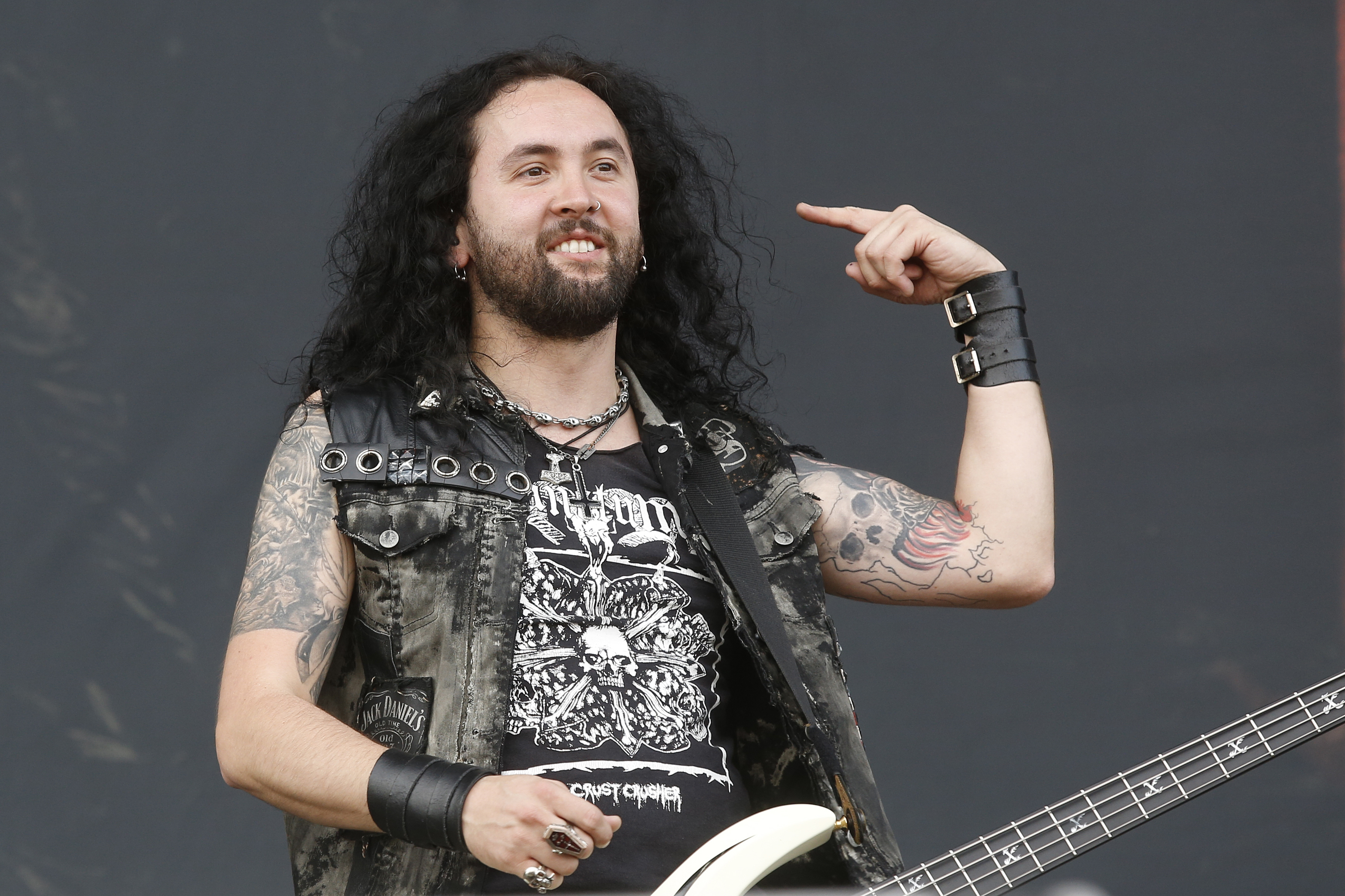 Frédéric Leclercq bassist of DragonForce at Nova Rock-Festival 2013.